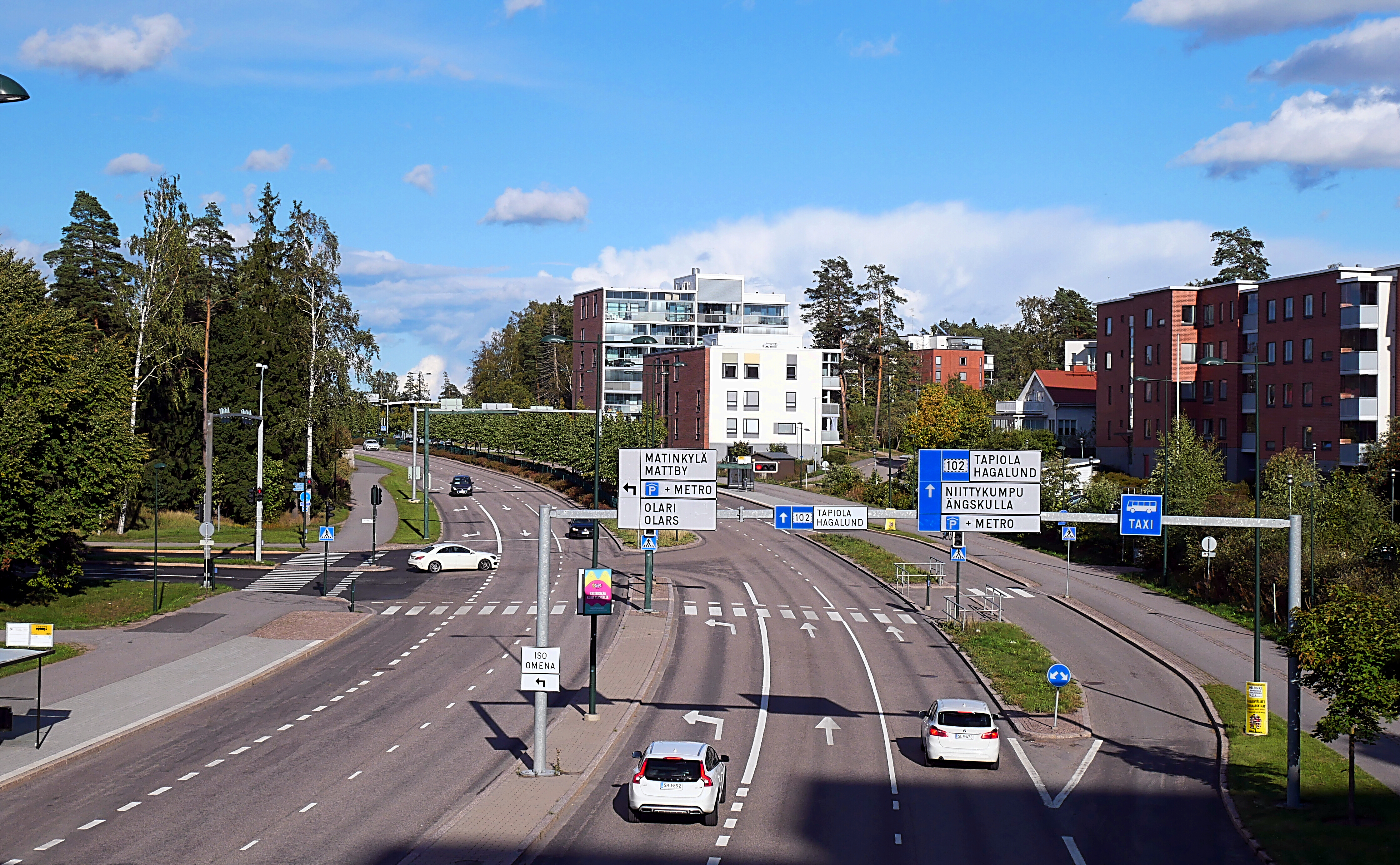 The street Kuitinmäentie in Olari, Espoo, Finland.